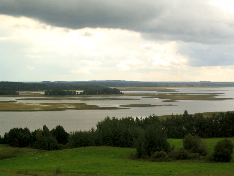 Strusta lake in Brasłaŭski Raion, Viciebskaja District, Belarus.